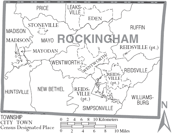 Map of Rockingham County, North Carolina, United States with township and municipal boundaries